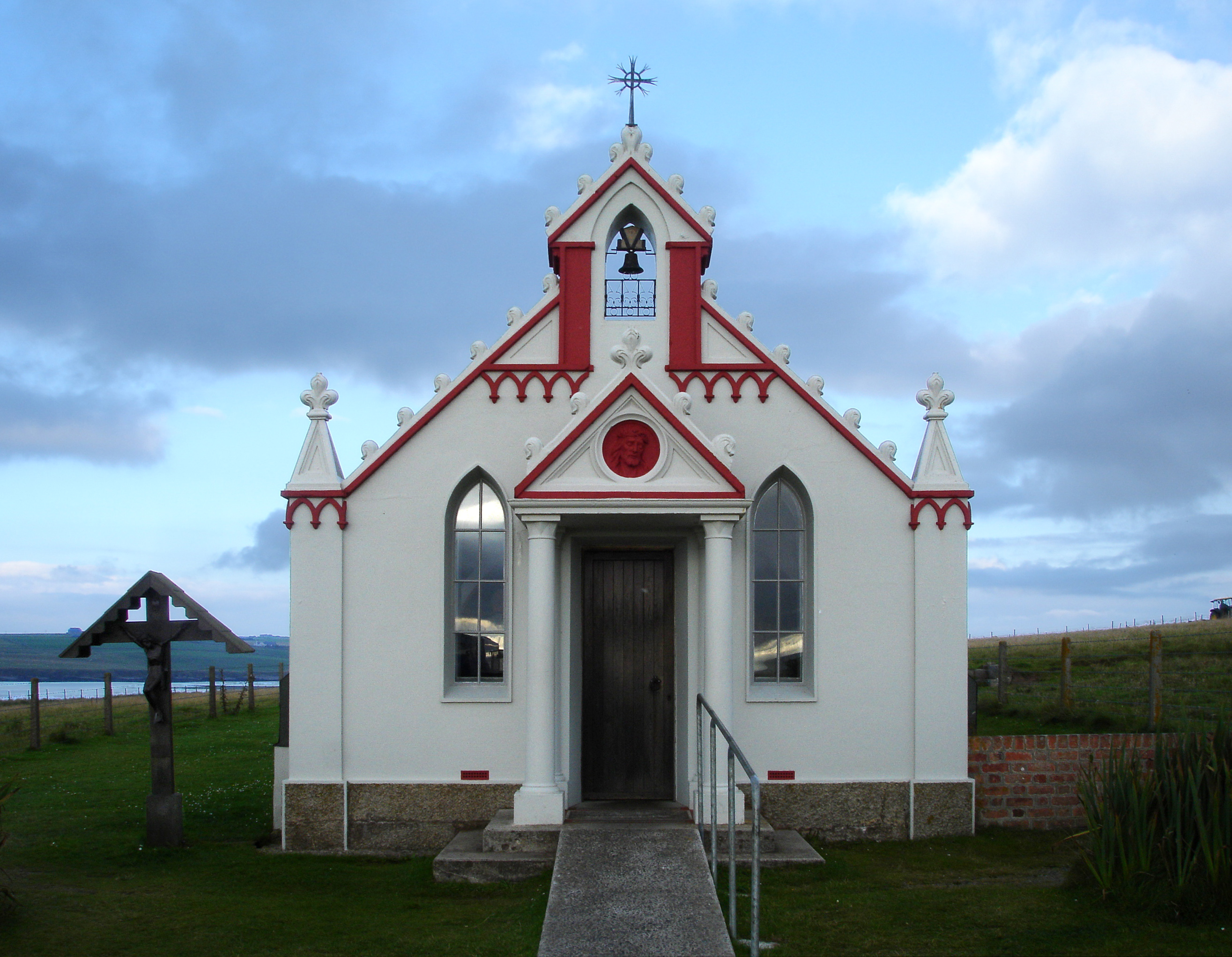 A modification of Image:Orkneyitalianchapel1.JPG. Author: LordHarris. Summary The front exterior of the Italian Chapel, Orkney, Scotland. The chapel was built out of limited materials by Italian prisoners during World War II. The chapel was constructed from two Nissen huts joined end-to-end. Most of the decoration was done by Domenico Chiocchetti, a POW from Moena, who remained on the island to finish the chapel even when his fellow prisoners were released shortly before the end of the war.